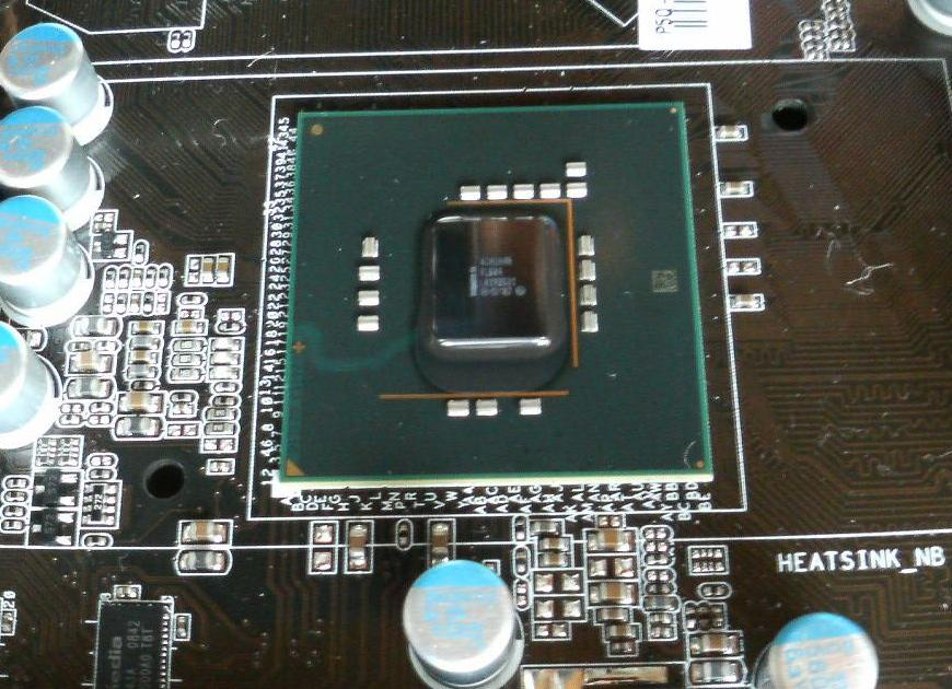 North Bridge Intel G45